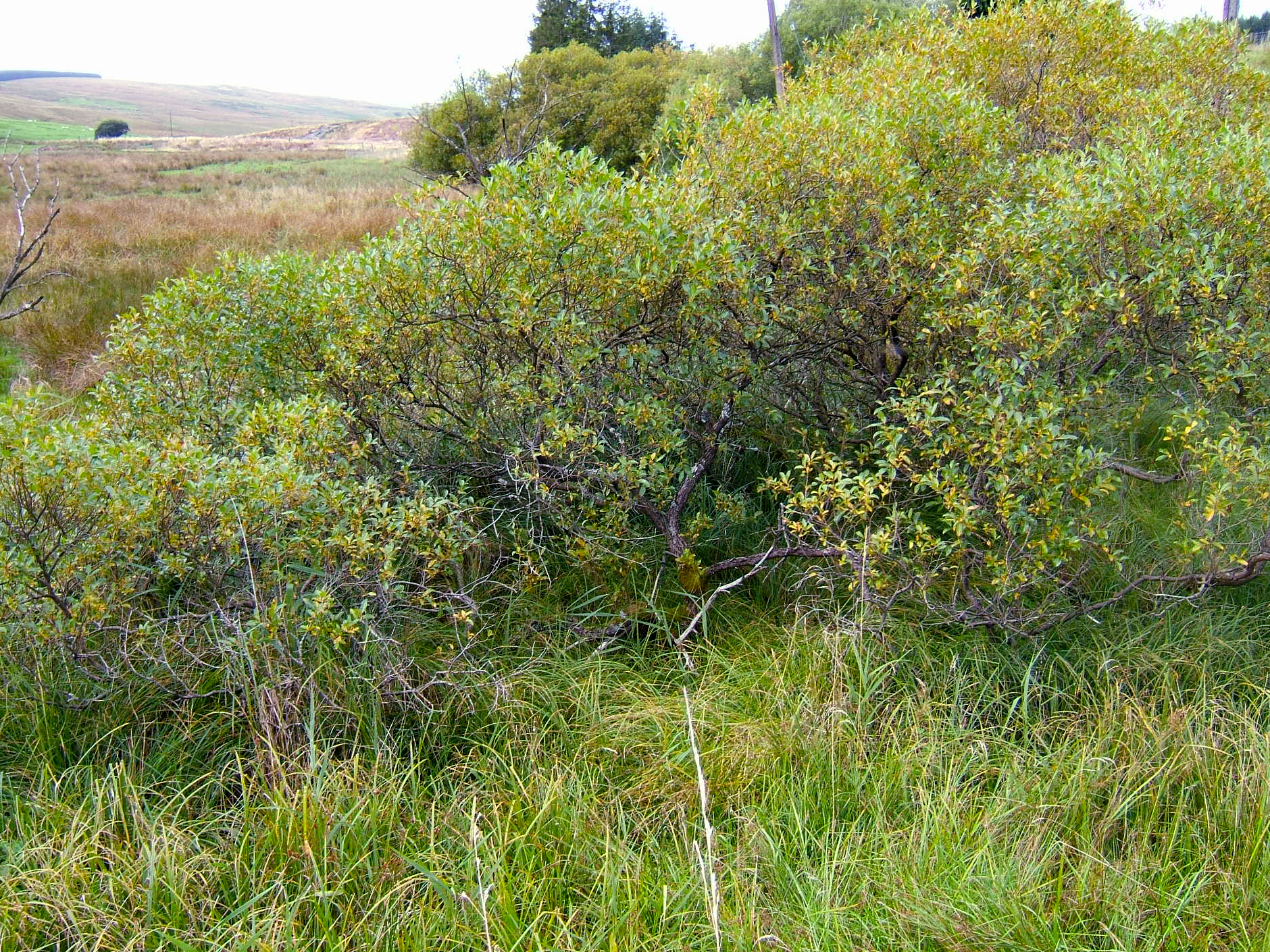 Salix pentandra growing wild, Kielder, Northumberland, England; autumn 2005